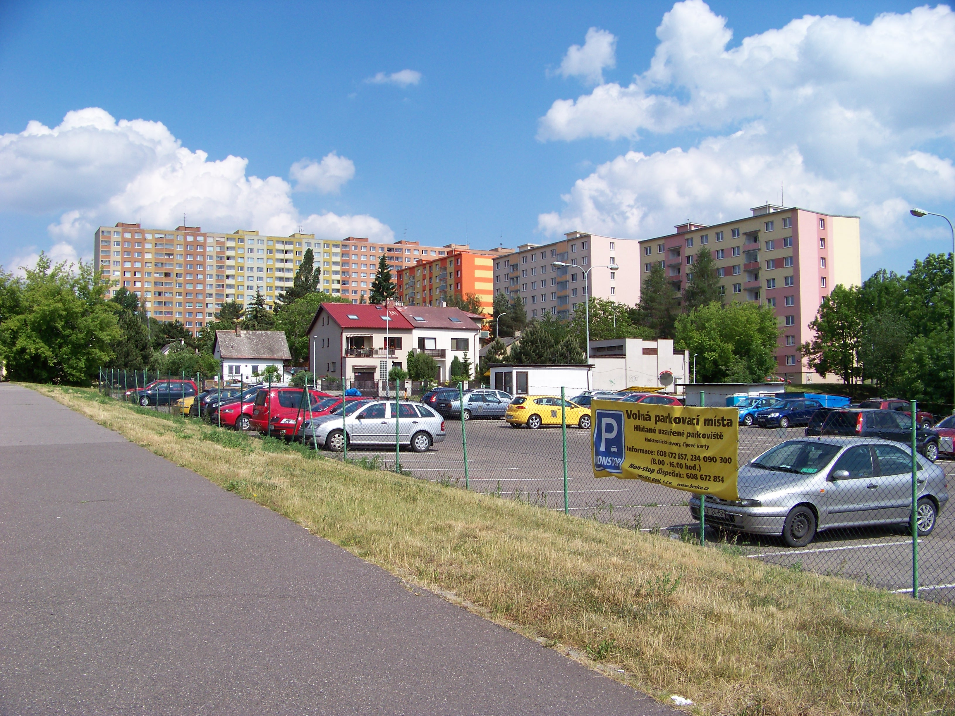 Prague-Kamýk, the Czech Republic. Lhotka Housing Estate, Durychova street, a view to Cihlářova, Liškova and Cílkova street.